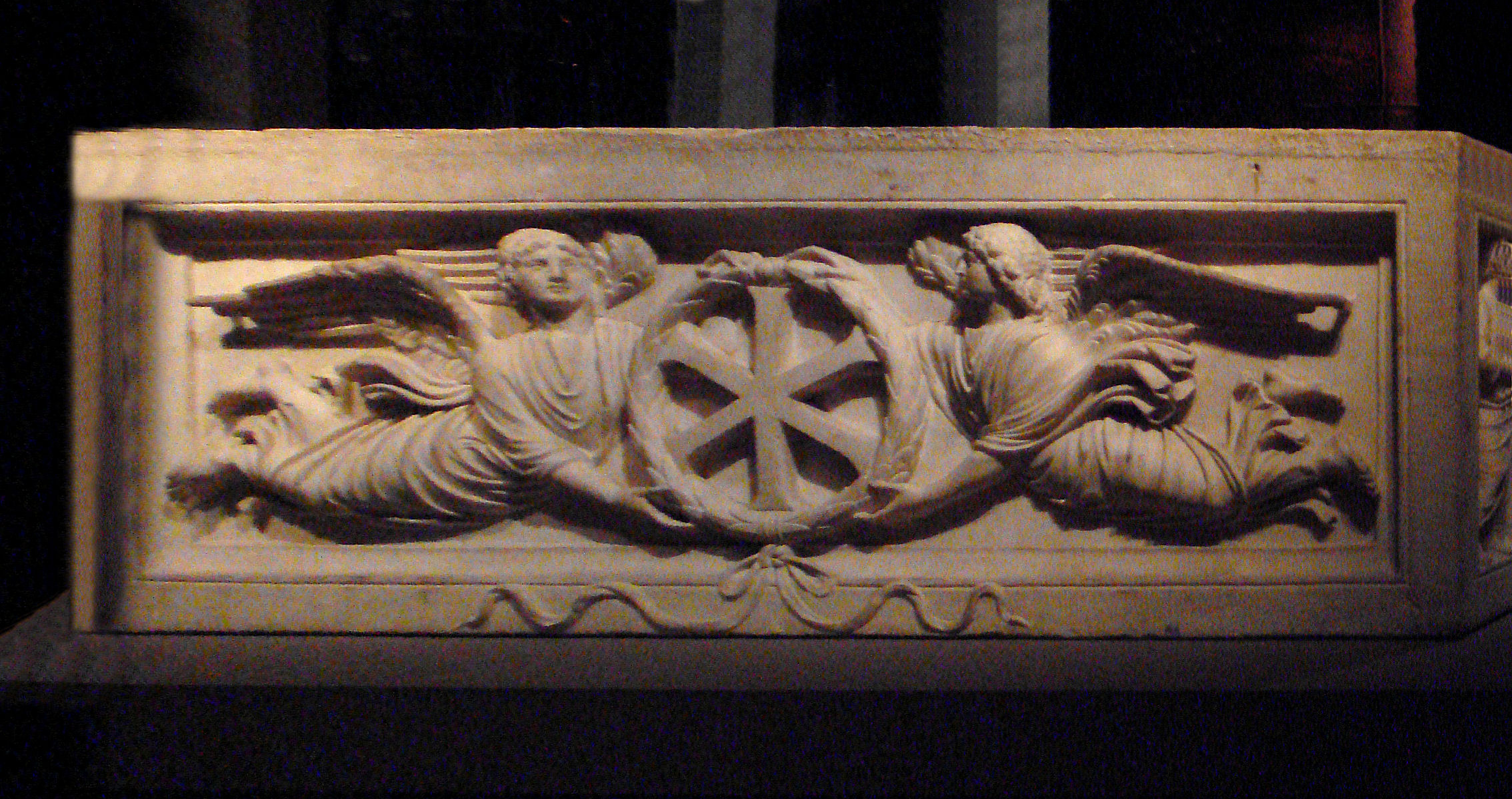 Contantinople_Christian_sarcophagus_circa_400